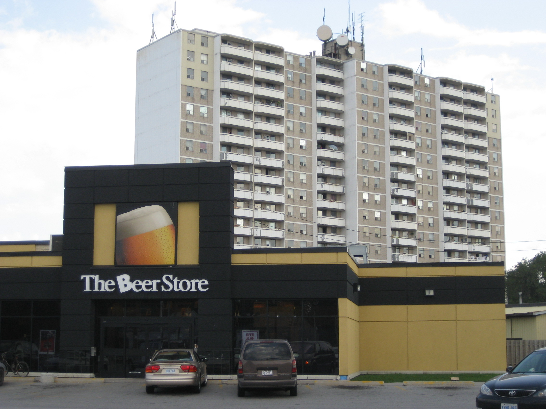 Vittoria Apartments, Melvin Street, just east of Parkdale Avenue North, Hamilton, Canada.